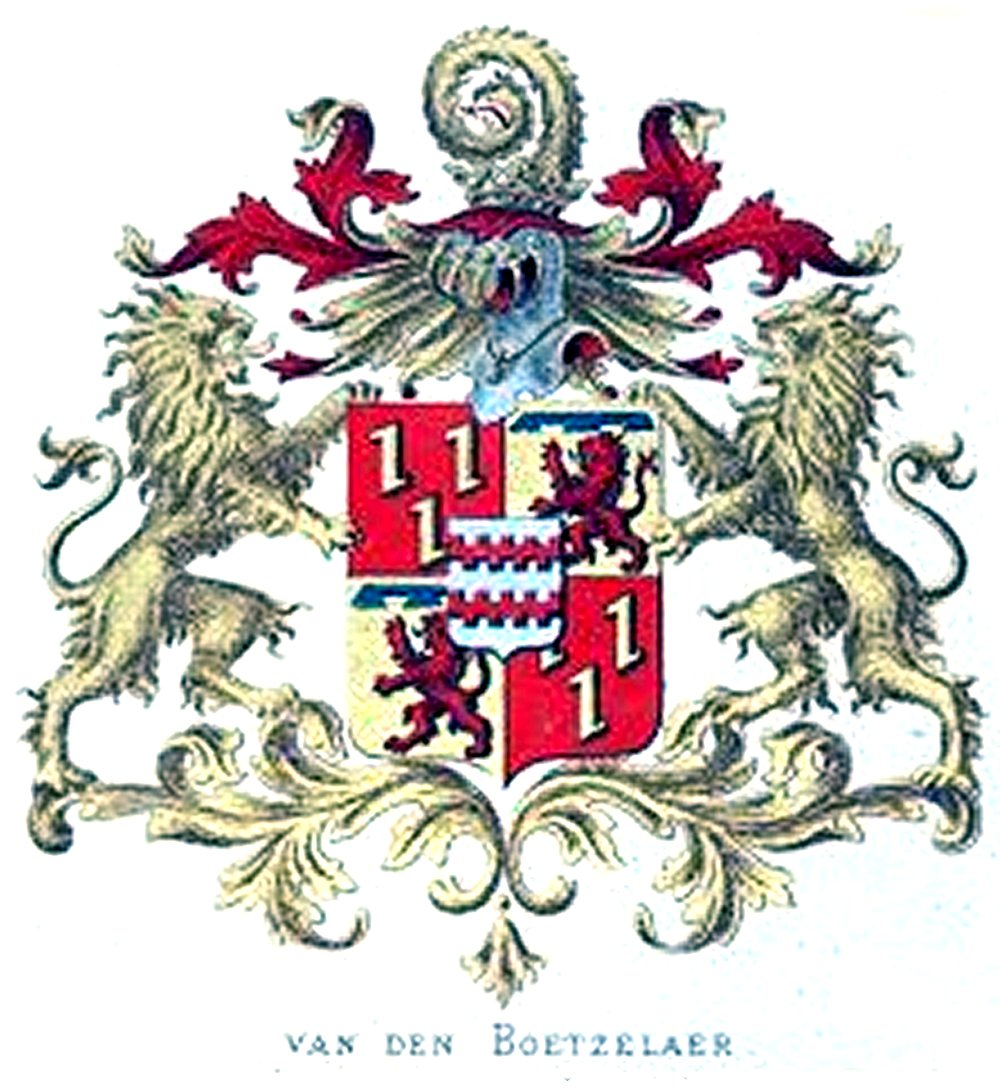 Coat of Arms van Boetzelaer. A dutch noble family orginated from the Holy Roman Empire of Germany. Members of the family are lords of different cities or "heerlijkheden" in the Netherlands.